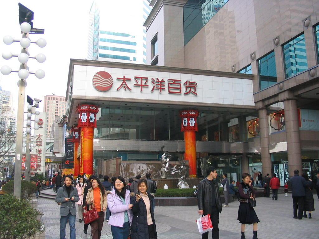 Pacific Department Store